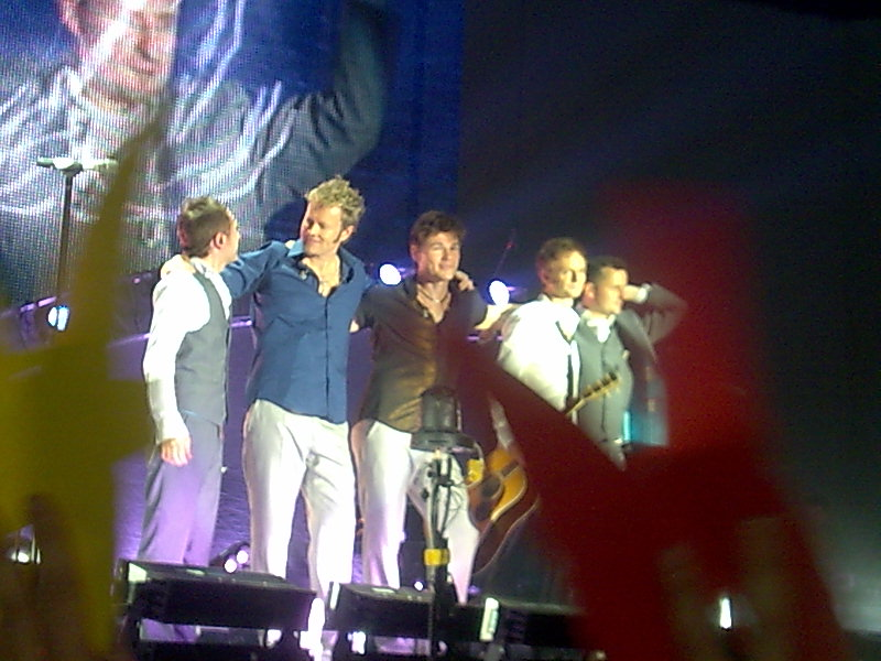 a-ha with their band in Madrid, Spain (October 14, 2010).